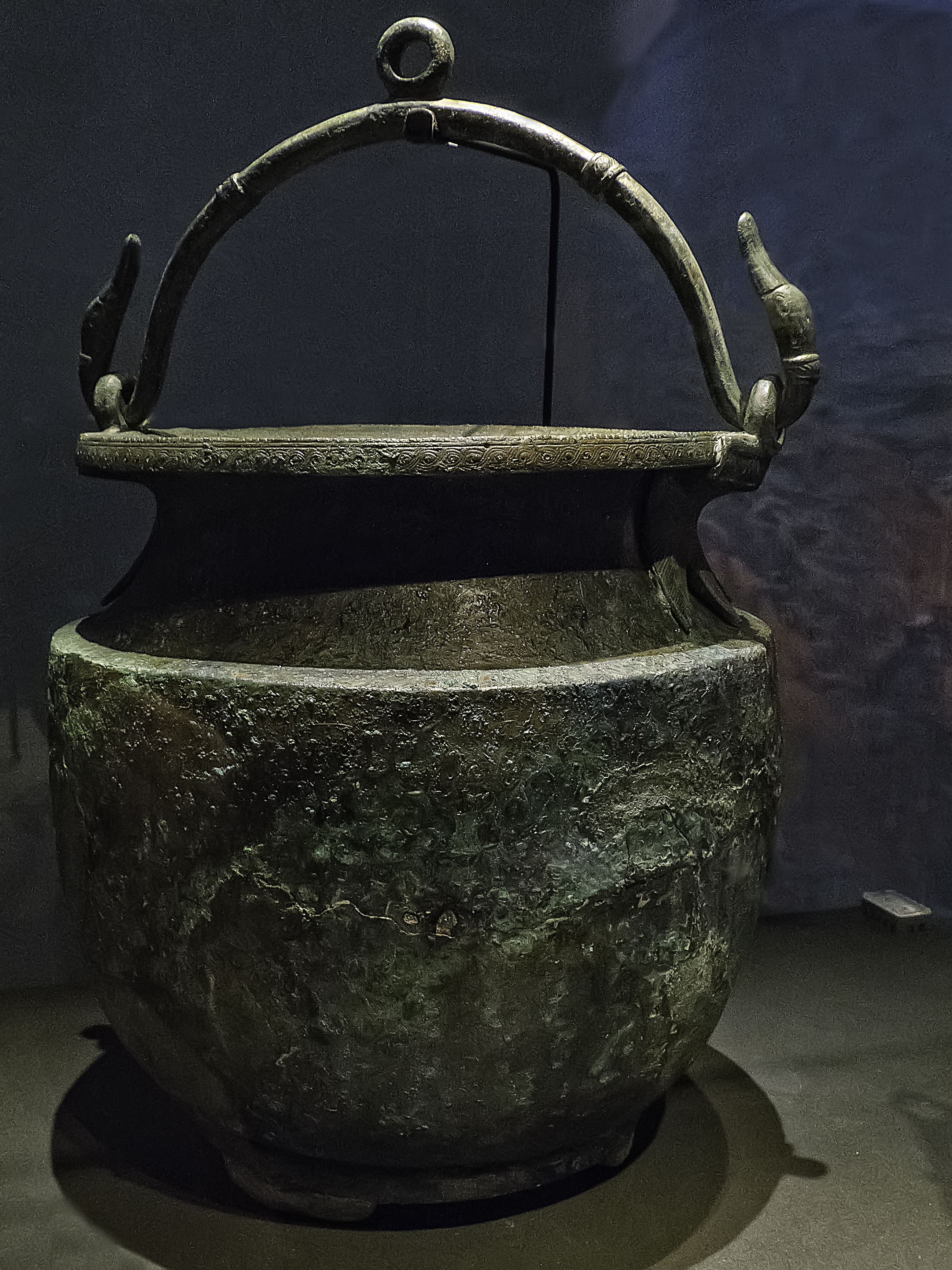 Bronze bucket used to mix water with wine in a kitchen setting from a thermopolium in Pompeii 1st century CE